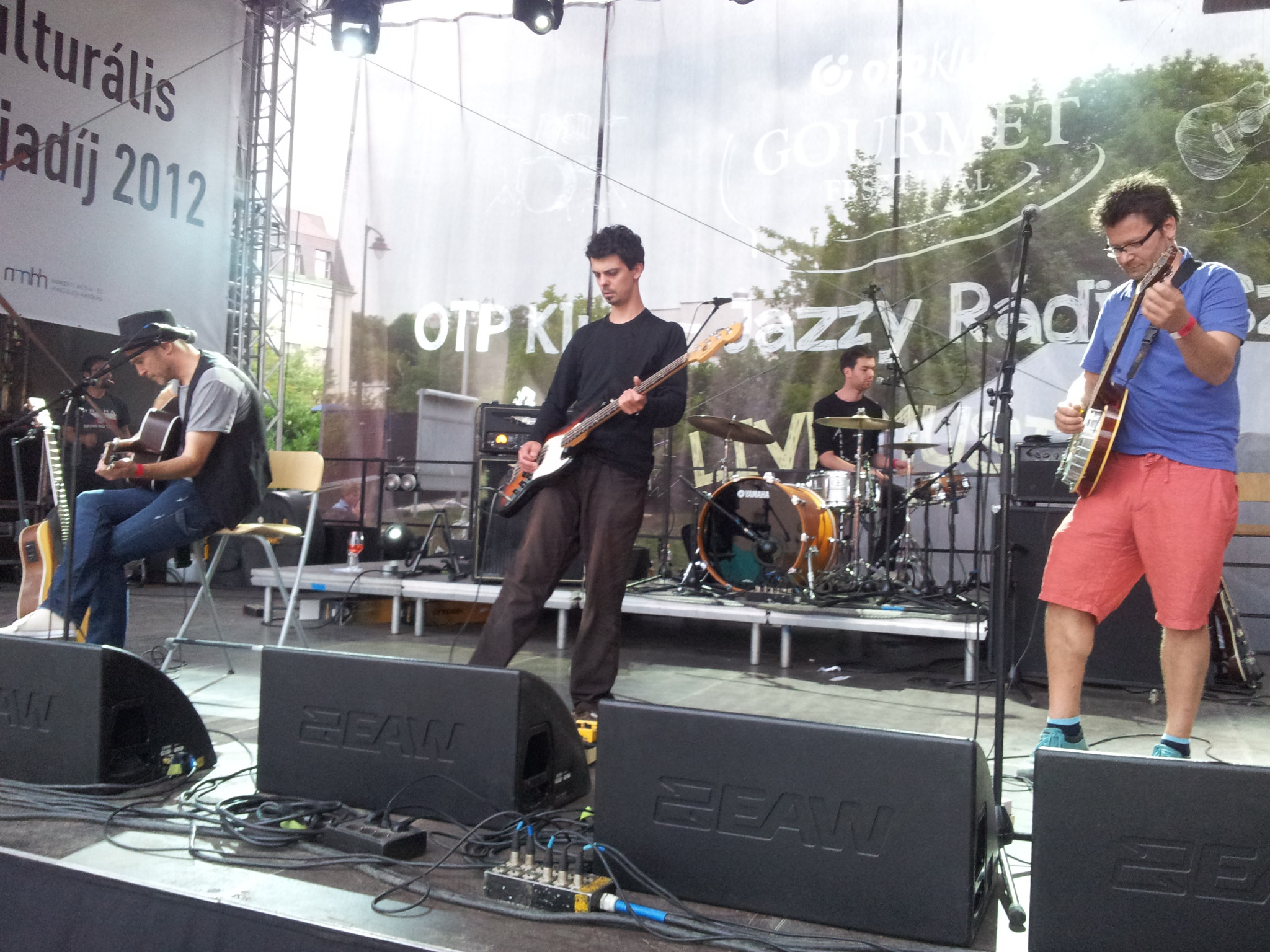 The Kiscsillag band in Budapest at Gourmet Festival on 9 June 2012.